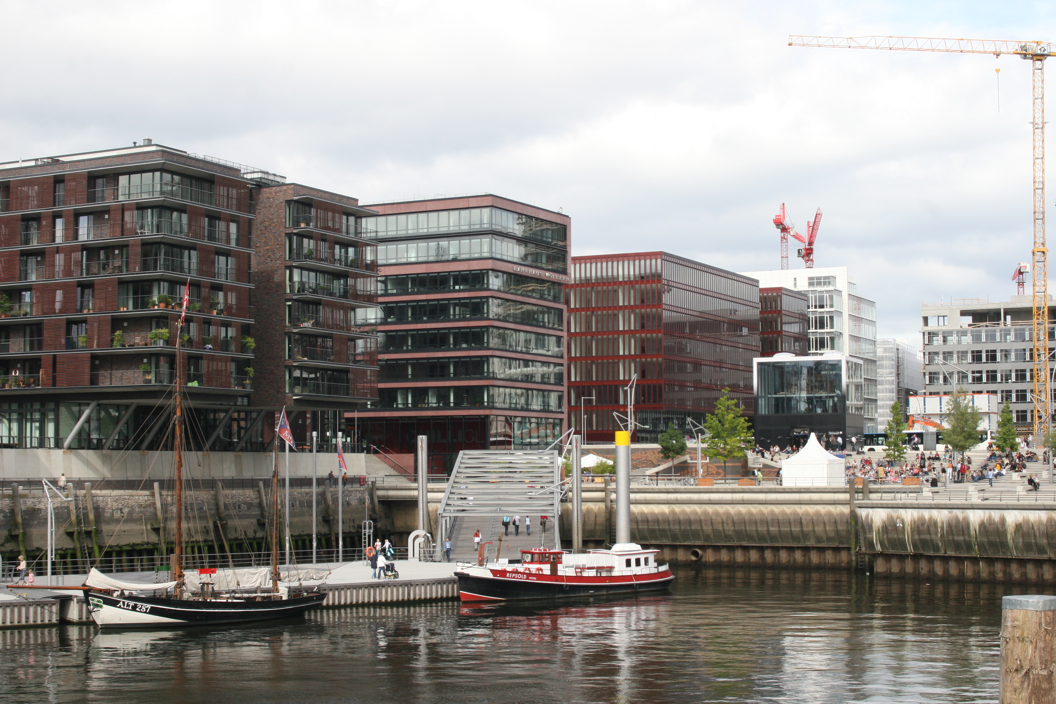 Magellanterassen at HafenCity, Hamburg, Germany